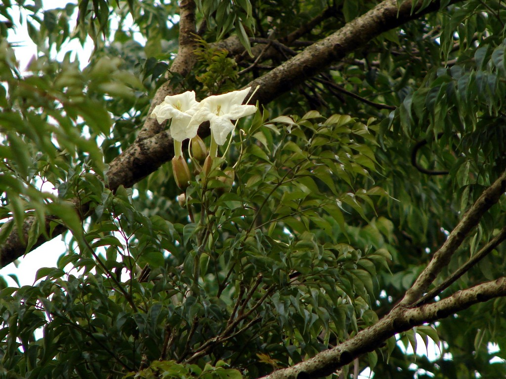 Large tree of Bignoniaceae family. Long white 'trumpet' flowers are far up on the tree, and some were on the ground. See long 'curly' seedpods and pinnately compound leaves. Best match: Stereospermum , or Radermachera probably Stereospermum fimbriatum - 'The snake tree'. Look at the seed capsules - they are really look like a snakes, the bundles of twisted seed pods last on the tree for mounts. Such fruit is called bivalved capsule, and they are dehiscence - means splitting at maturity. So,more likely it is Radermachera sinica synonym: Stereospermum sinicum Common names: - "China Doll", "Serpent Tree" or "Emerald Tree". Native to Asia Its Dwarf variations "Asian Bell Tree" is popular as indoor plant.. (later: I bought a pot with a nice plant labelled as 'China Doll') Location: Tamborine, South QLD, Australia (not in the rainforest)